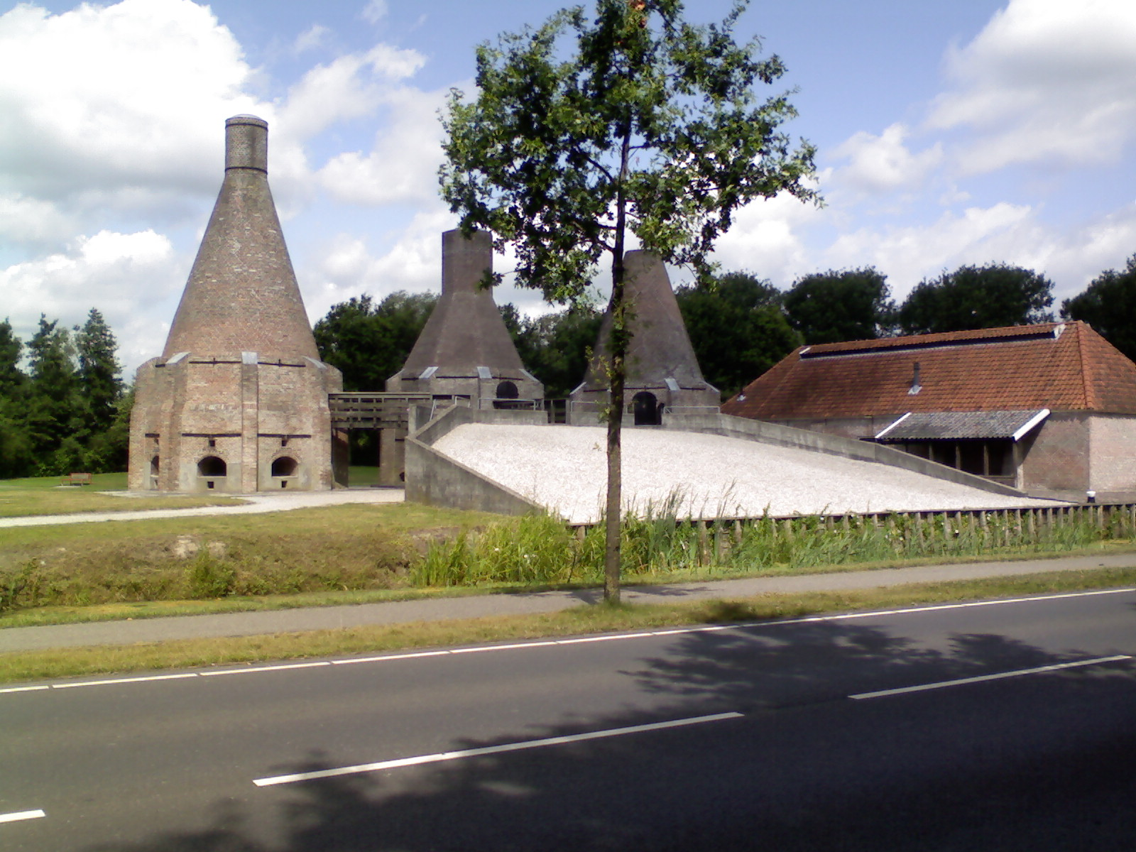 Chalkovens near Dedemsvaart in the Netherlands